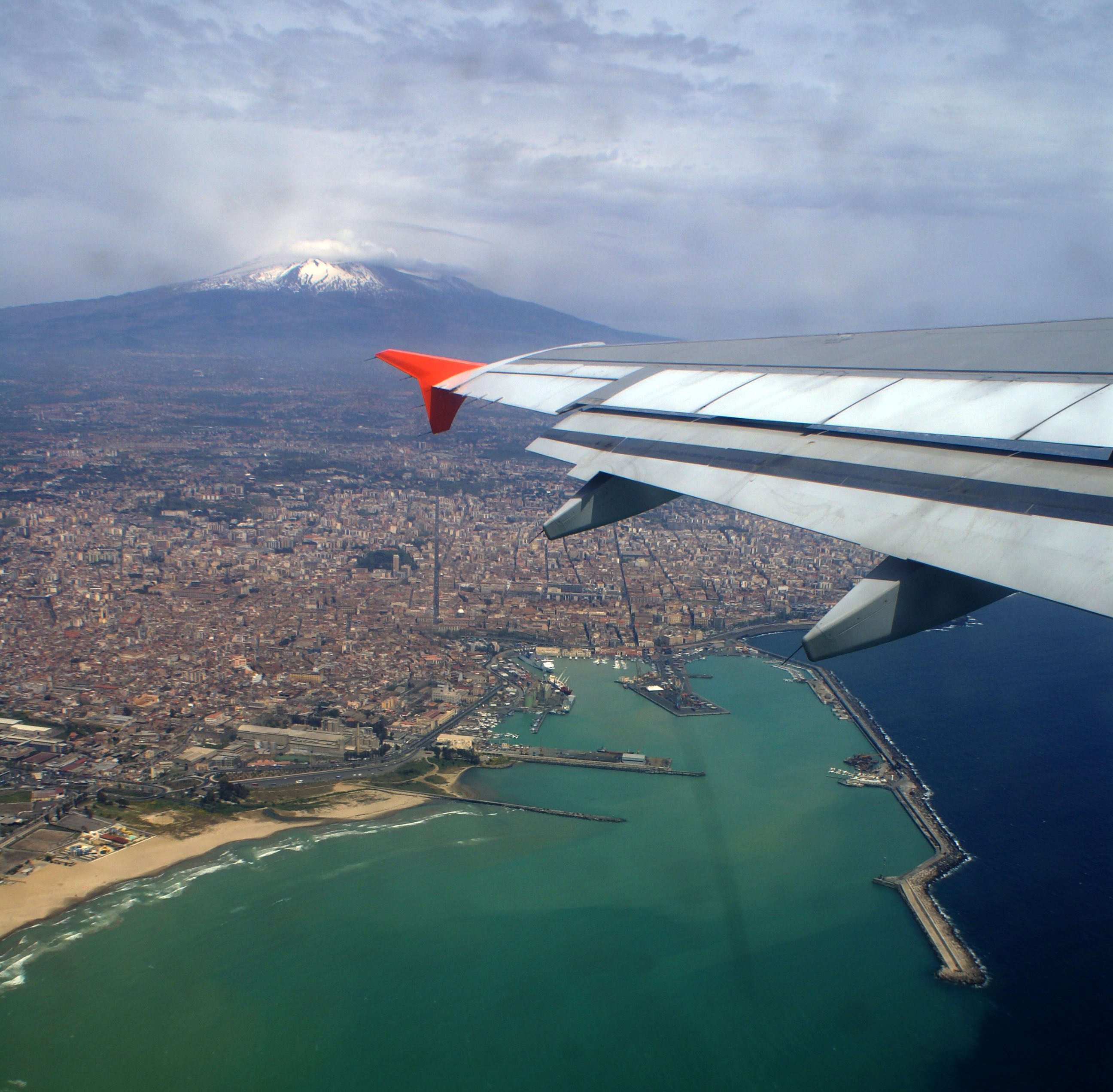 Mount Etna from an airplane arriving Catania.